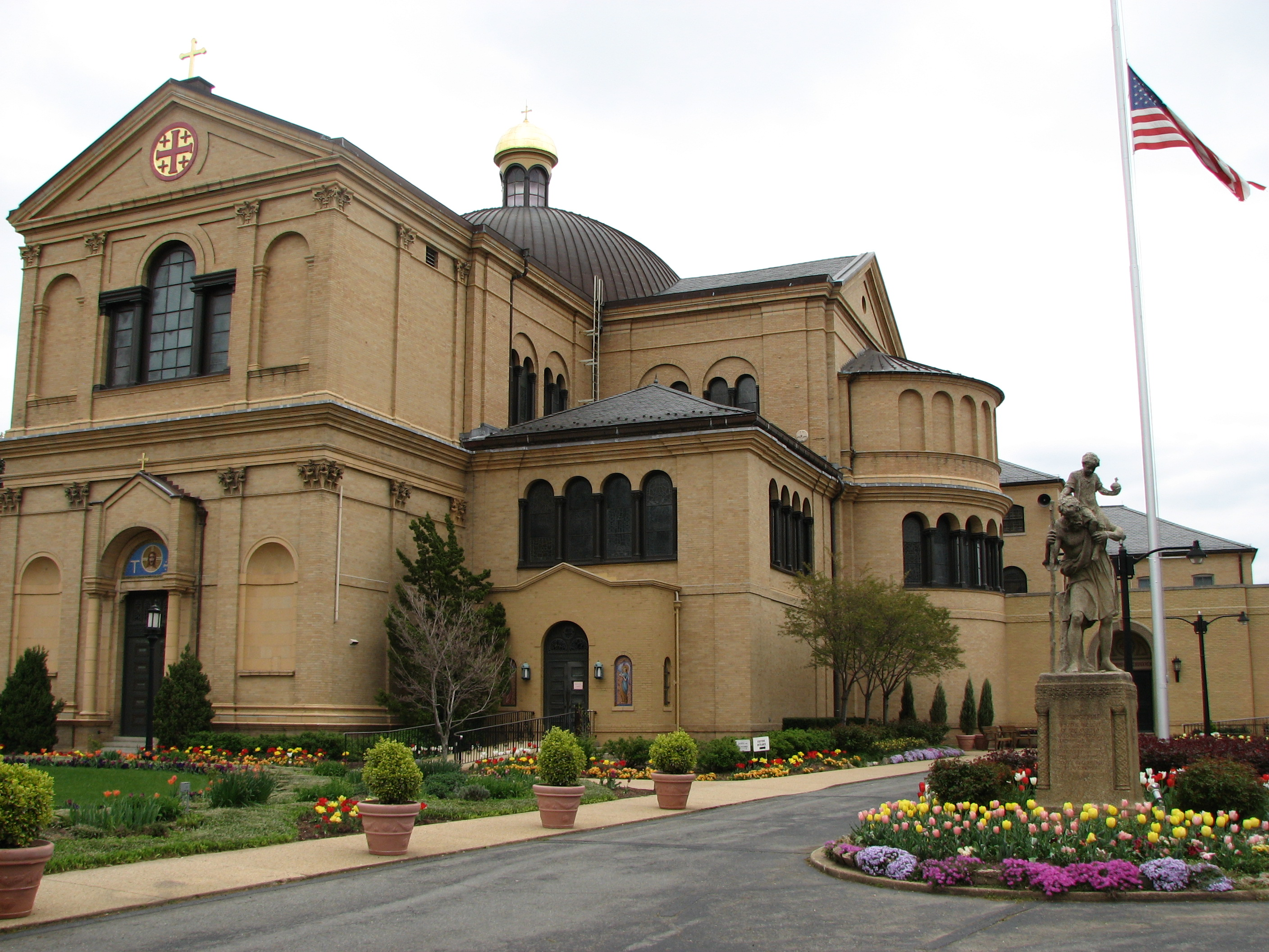 The Mount St. Sepulchre Franciscan Monastery is located at 14th and Quincy Streets near the Brookland neighborhood of Northeast Washington, D.C.